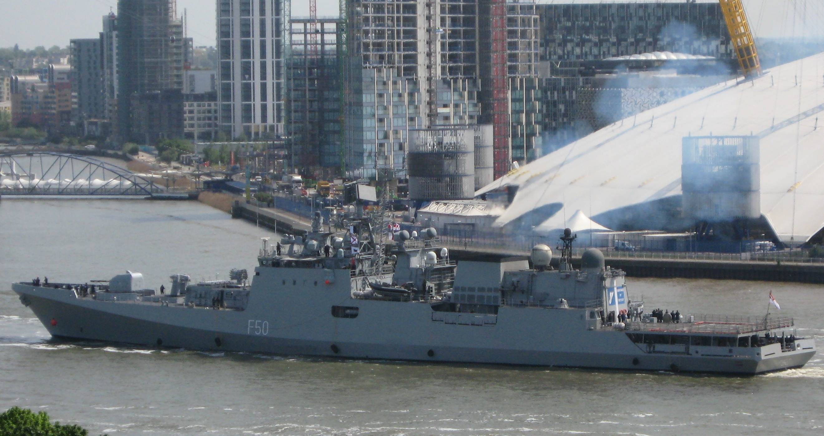 INS Tarkash sailing past the O2 Arena in London on 10th May 2017